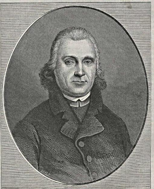 Portrait of the poet Ferenc Verseghy